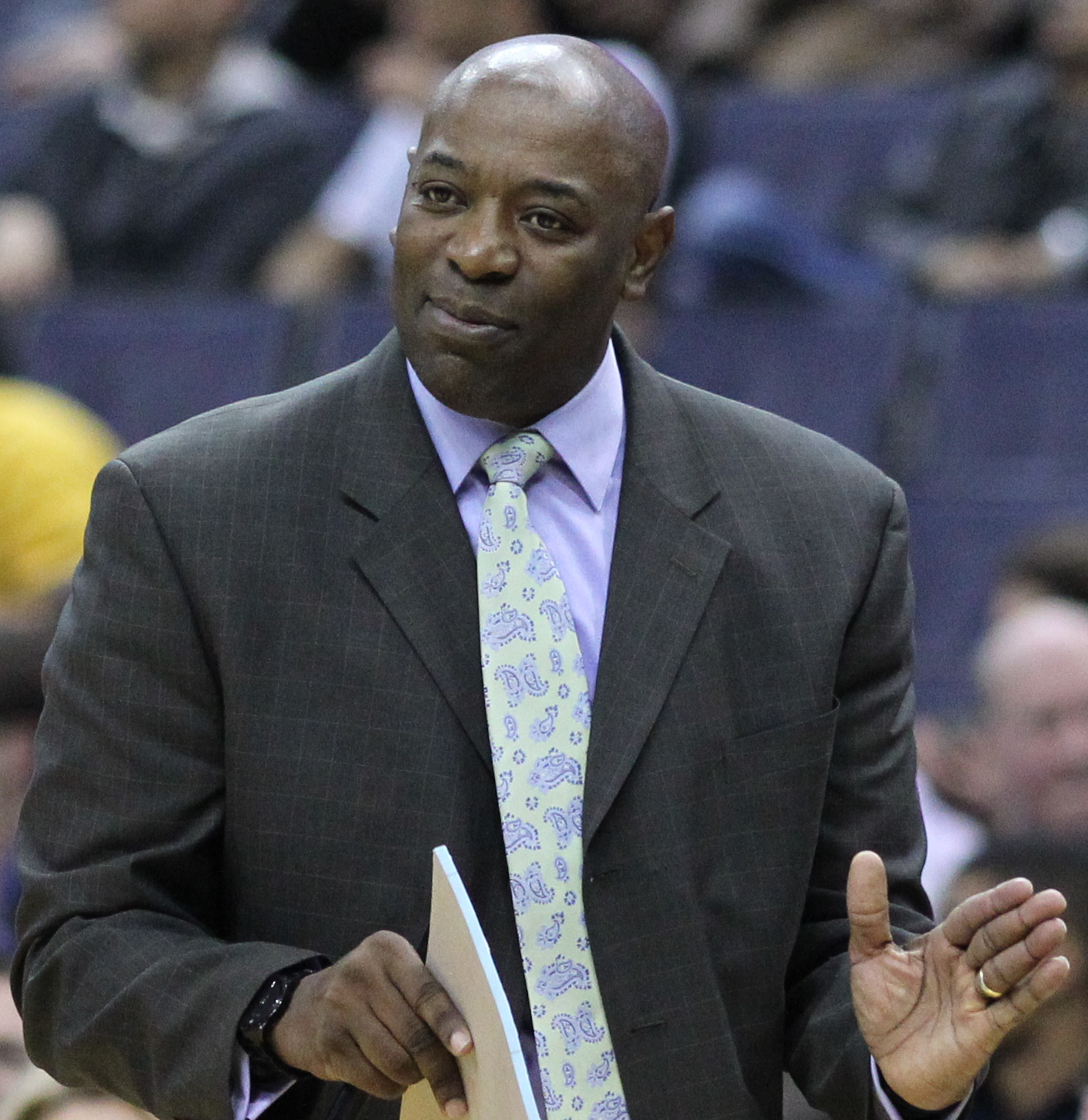 Wizards v/s Warriors 03/02/11